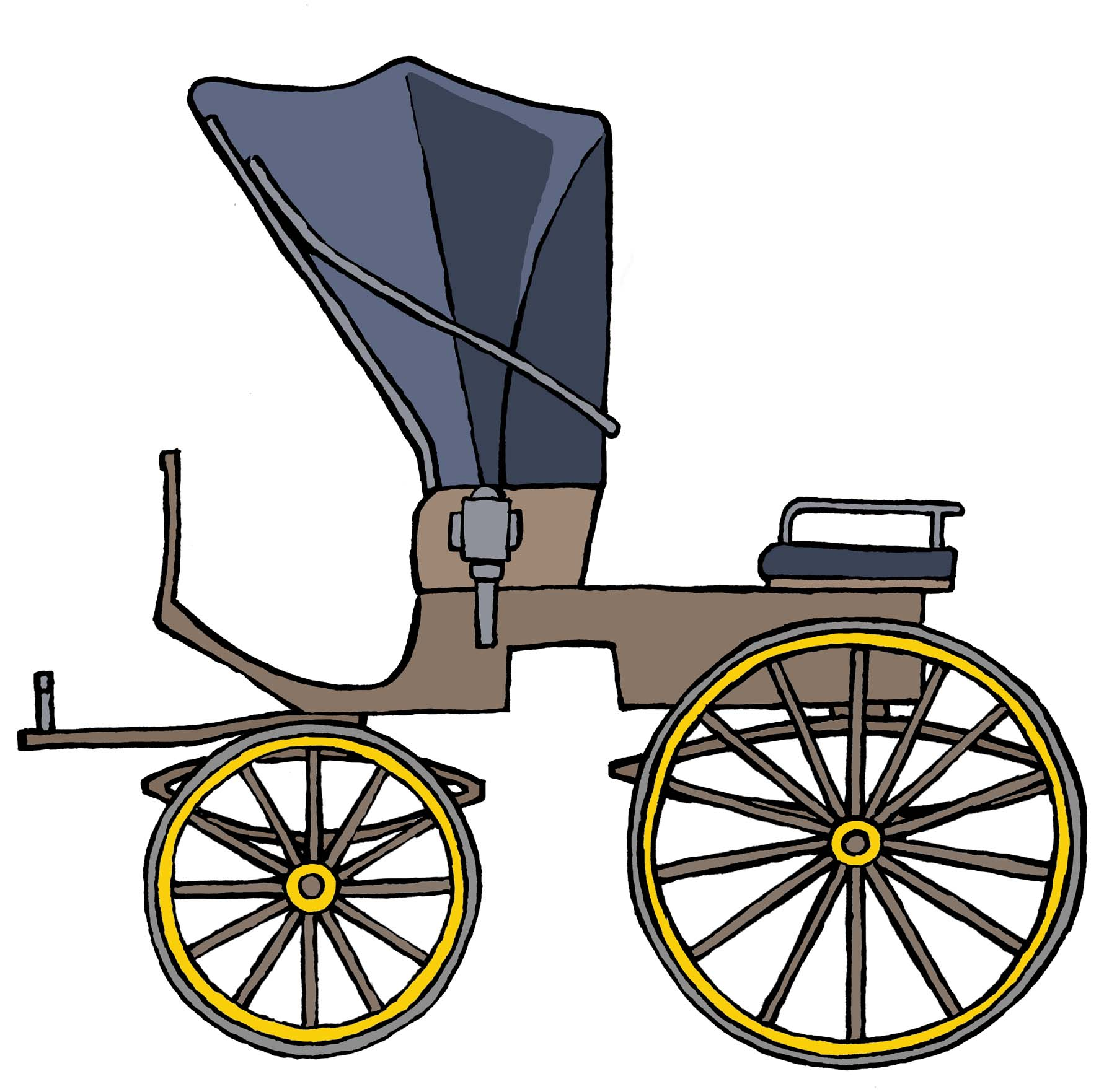 Stanhope phaeton